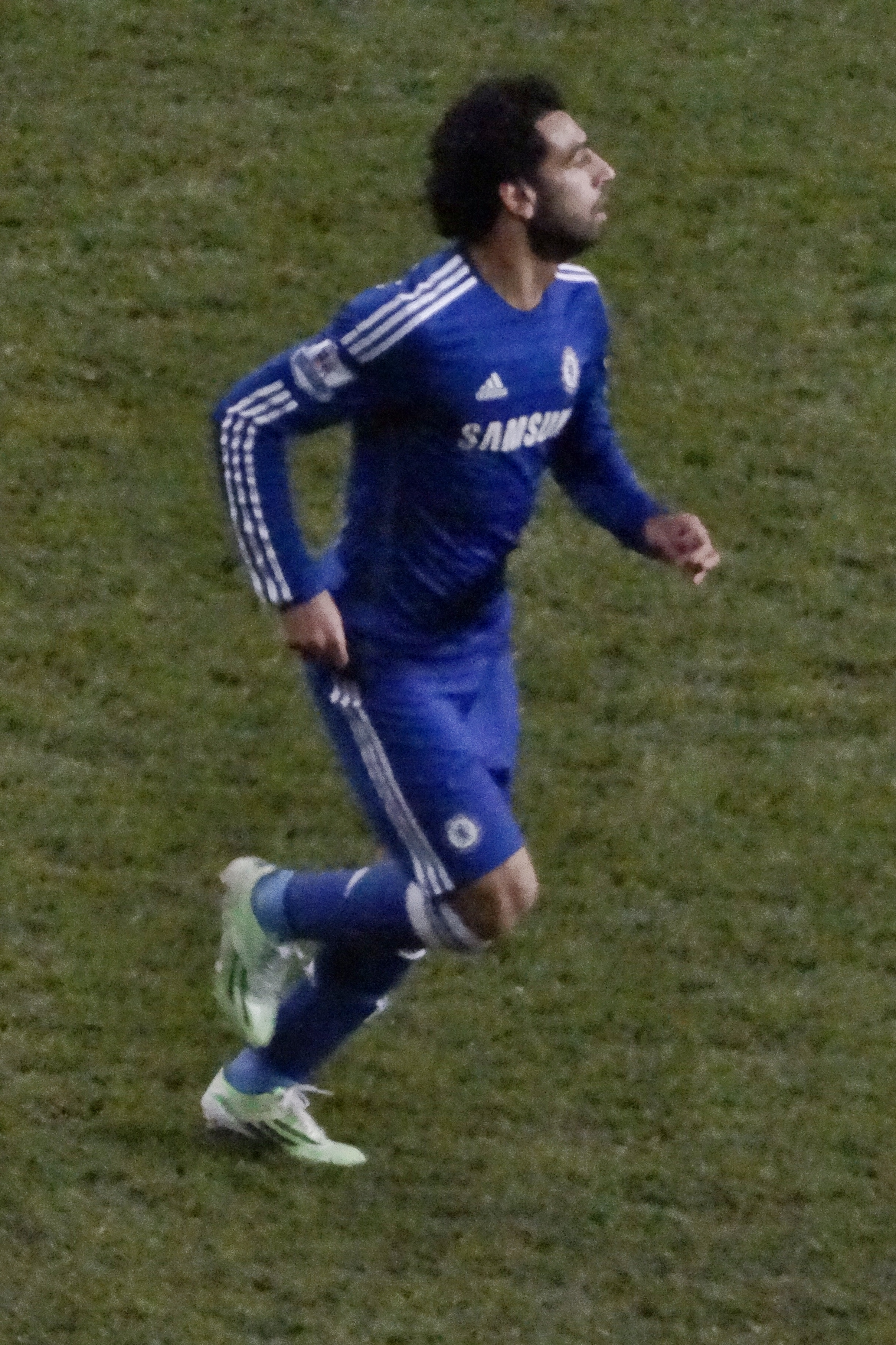 Spurs 5 Chelsea 3 Tottenham 5 Chelsea 3 at White Hart Lane